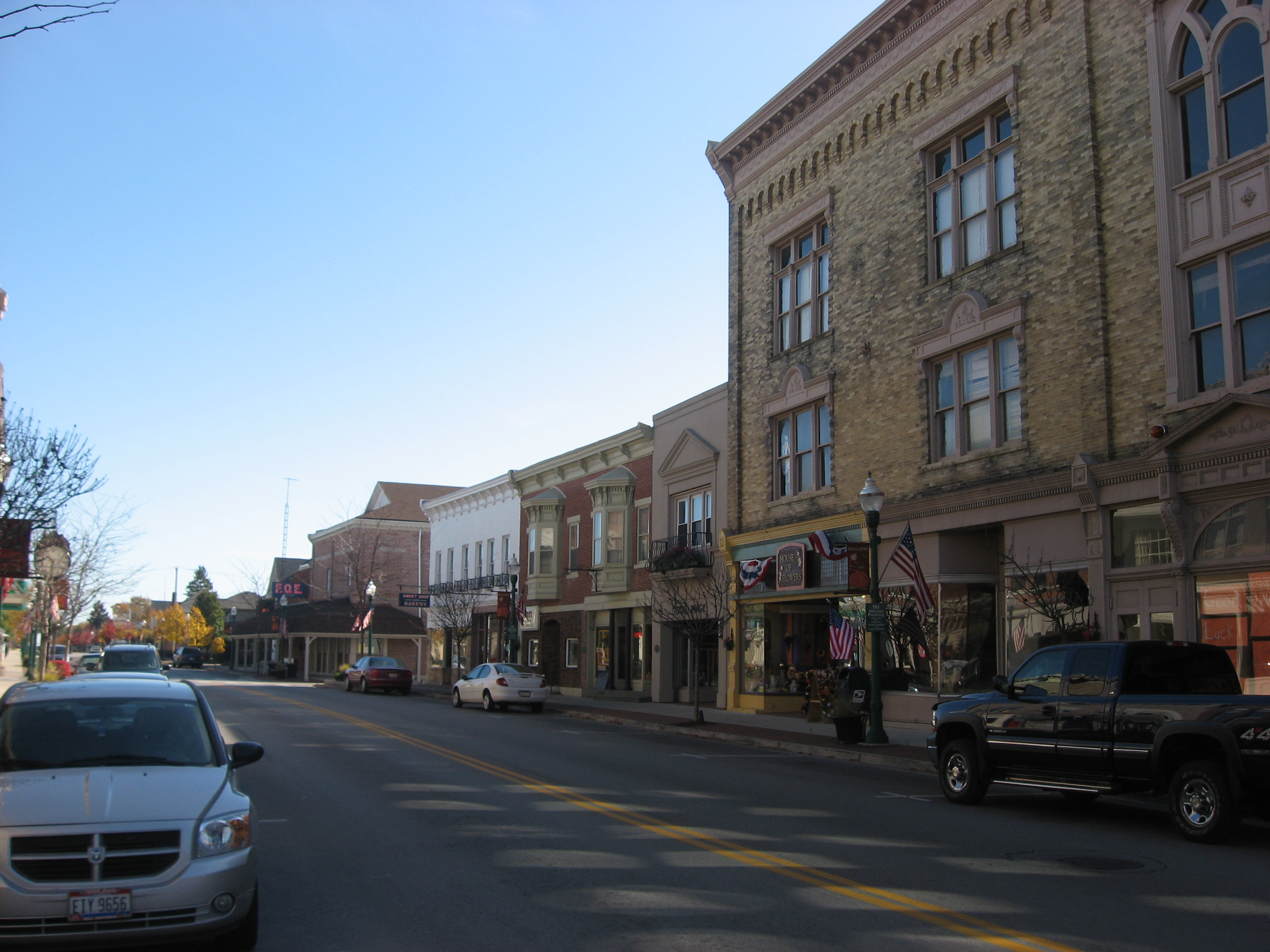 Buildings on the southern side of the 100 block of East Main Street (State Route 47) in downtown Versailles, Ohio, United States.